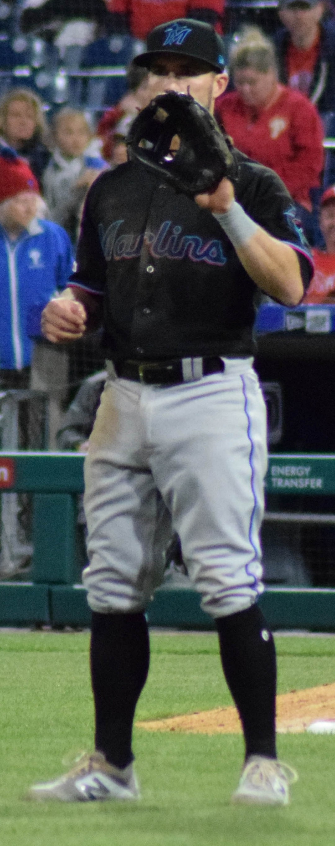 Jon Berti 2019